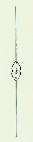 Bulb-headed probe by Bowman